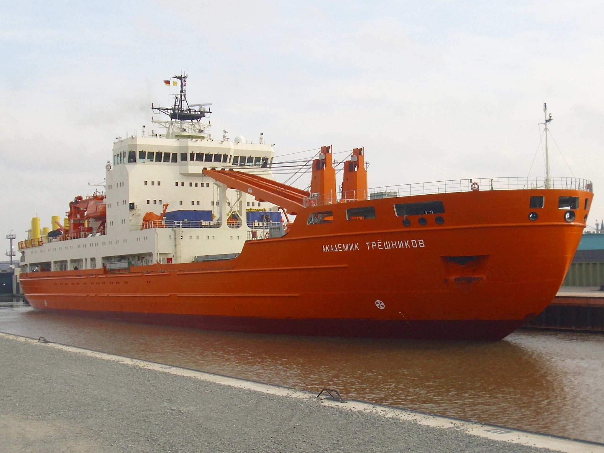 The Russian research ship Akademik Tryoshnikov in the Kaiserschleuse ship lock in Bremerhaven, Germany